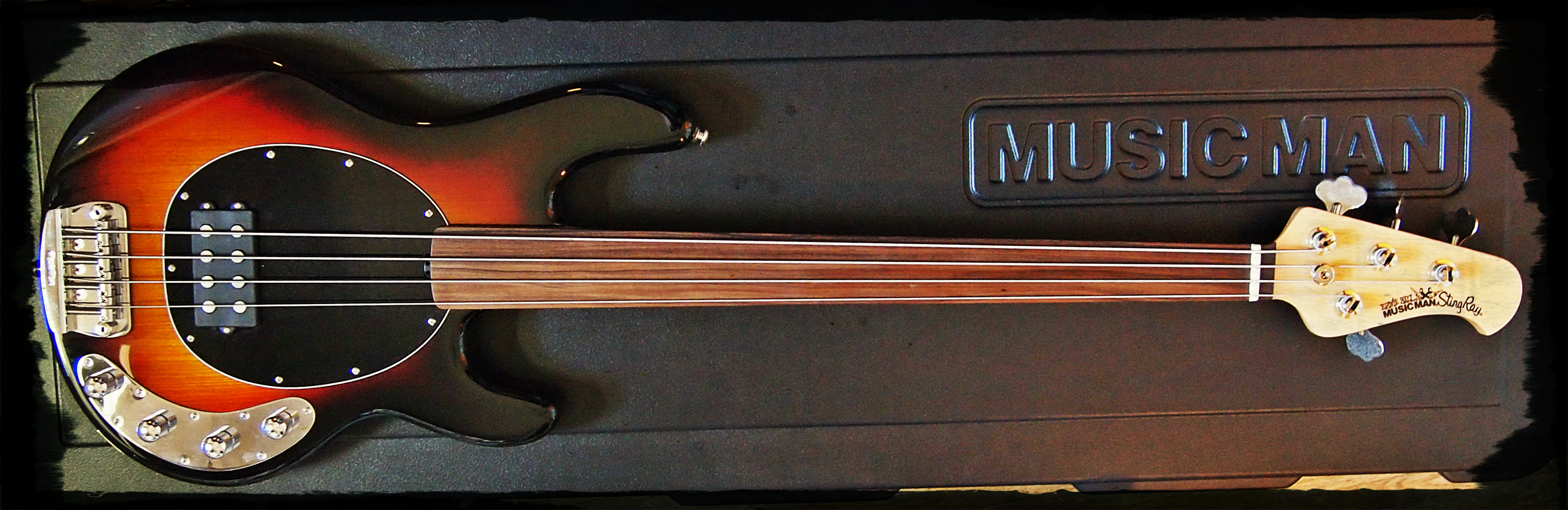 Music Man StingRay fretless bass